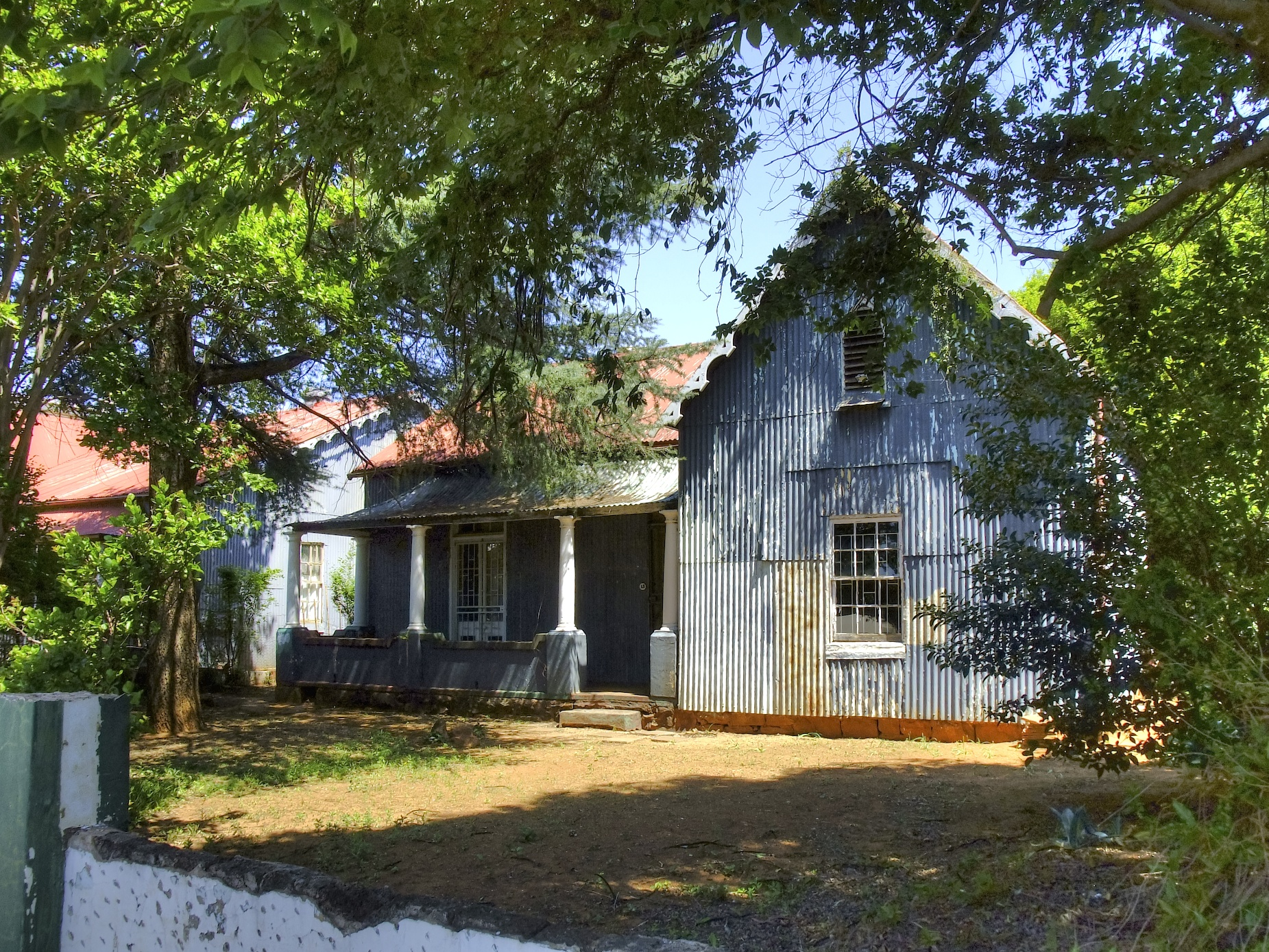 Wood and Iron Houses 13 and 15 Convent Avenue, Klerksdorp This media shows a South African Protected Site with SAHRA file reference 9/2/231/0001.